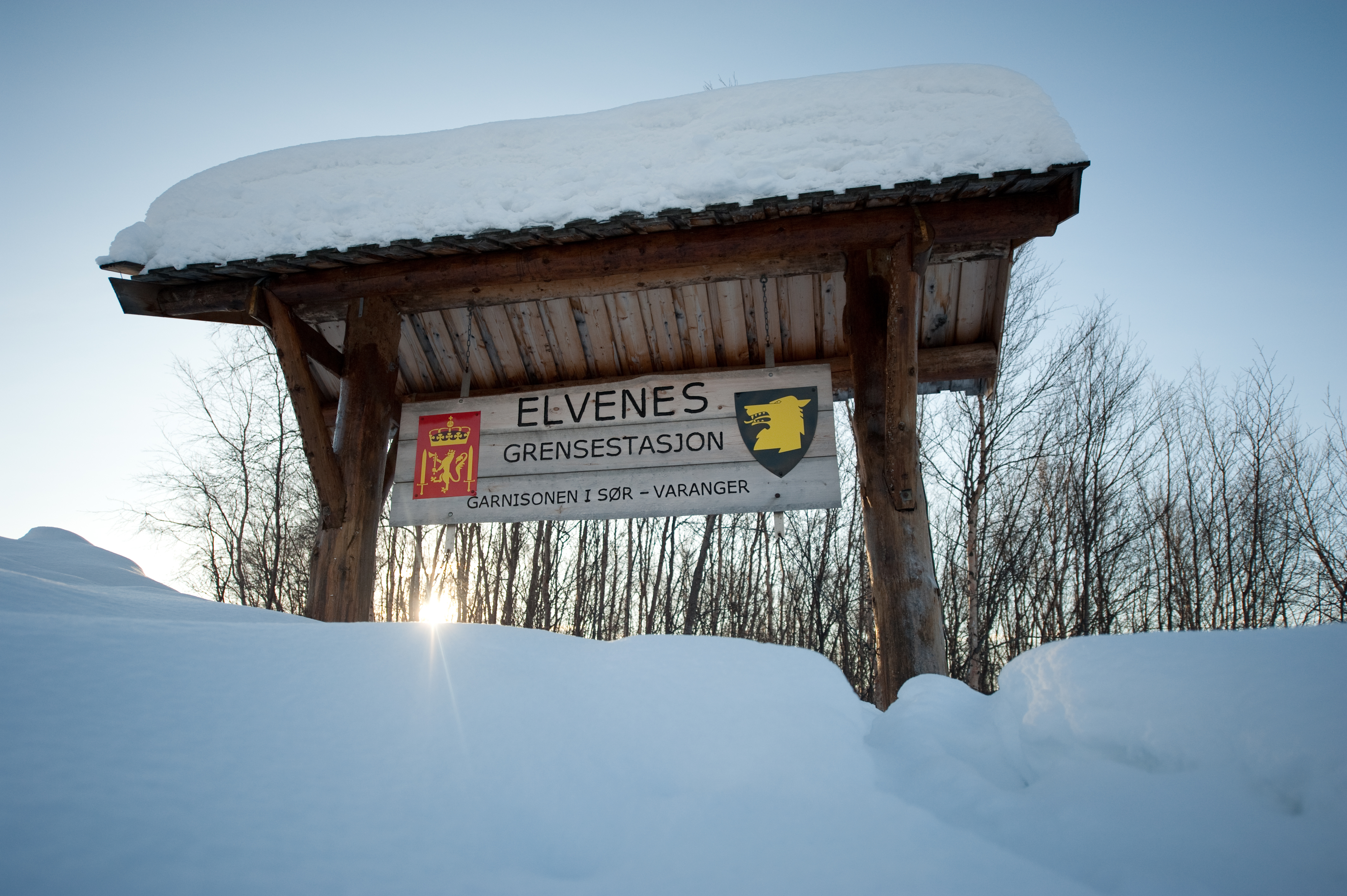 GSV (6 of 46)